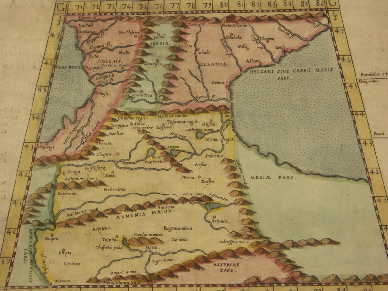 "Calecut Nuova Tavola" (the Deccan and the South), a map by Girolamo Ruscelli, published by Girodano Ziletti, Venice, 1561 and later editions: *a closeup of the South* frontispiece to the 1574 edition*; *the whole map, 1574 ed.*: *northwest*; *northeast*; *southwest*; *southeast*; *a closeup of the Deccan*. More maps from the same set, both Ptolemaic and updated, 1574 ed. unless otherwise marked, some with modern hand coloring